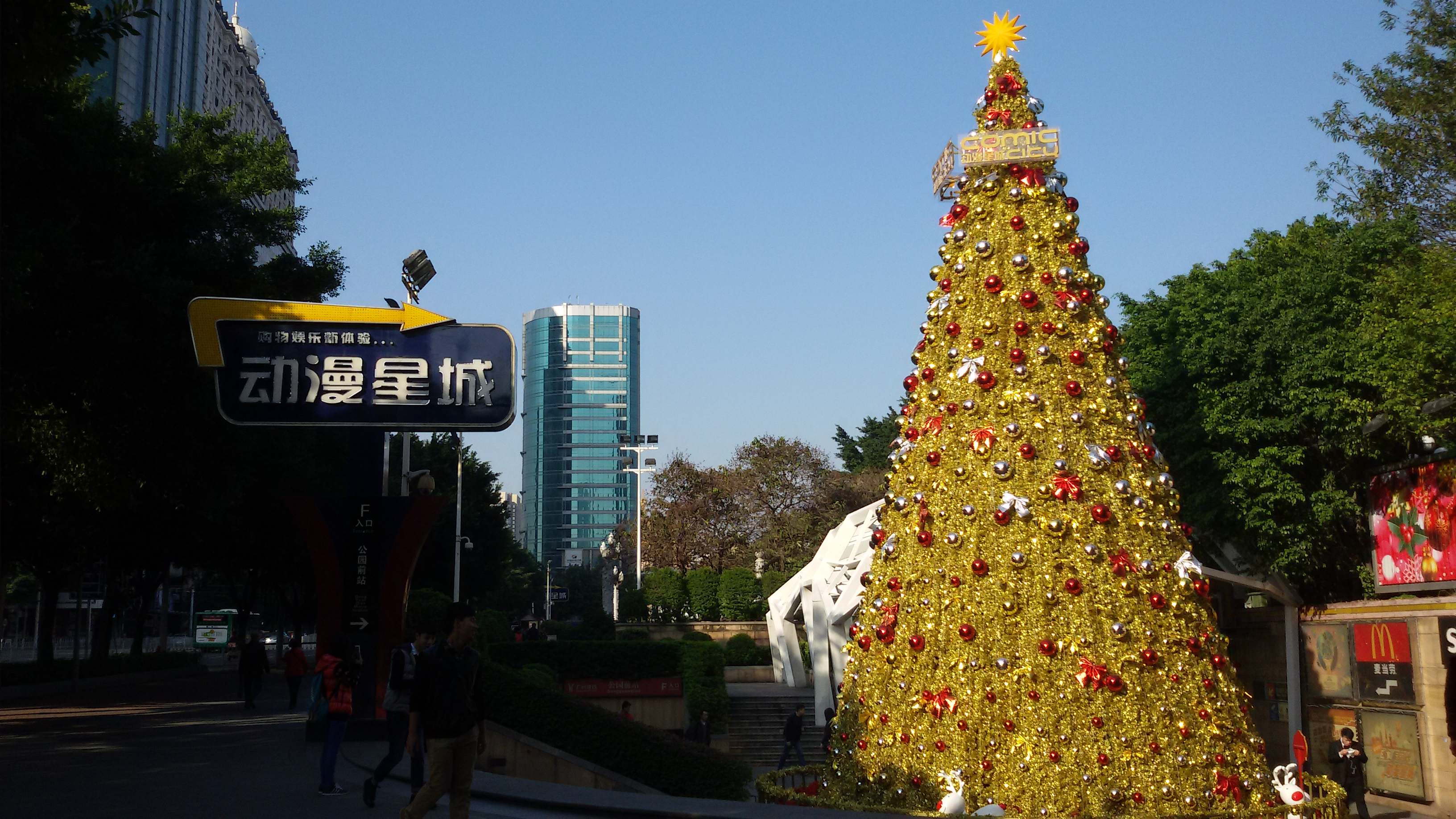 Comic City